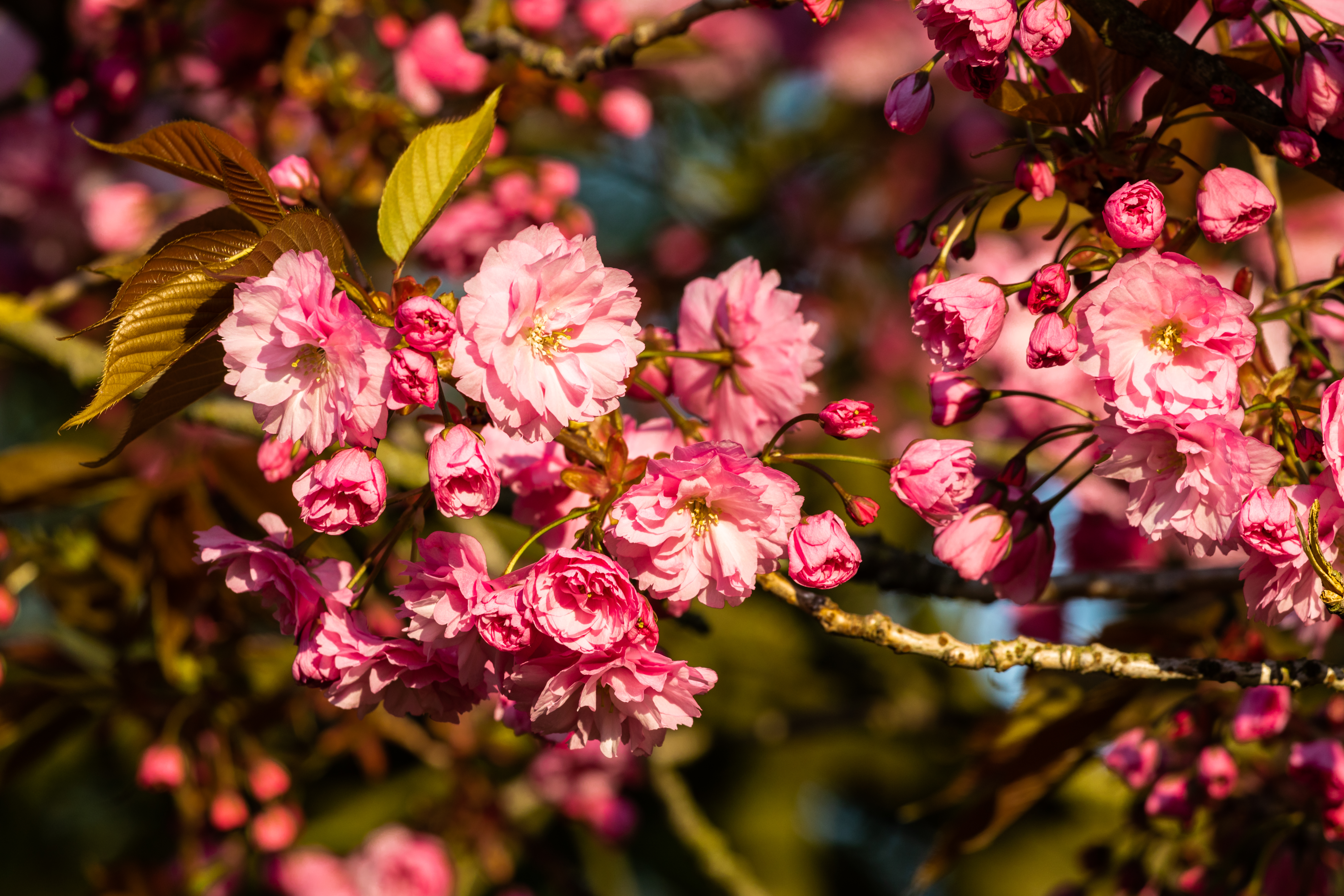 Japanese Cherry (Prunus serrulata) at Sentmaring Park in Münster, North Rhine-Westphalia, Germany